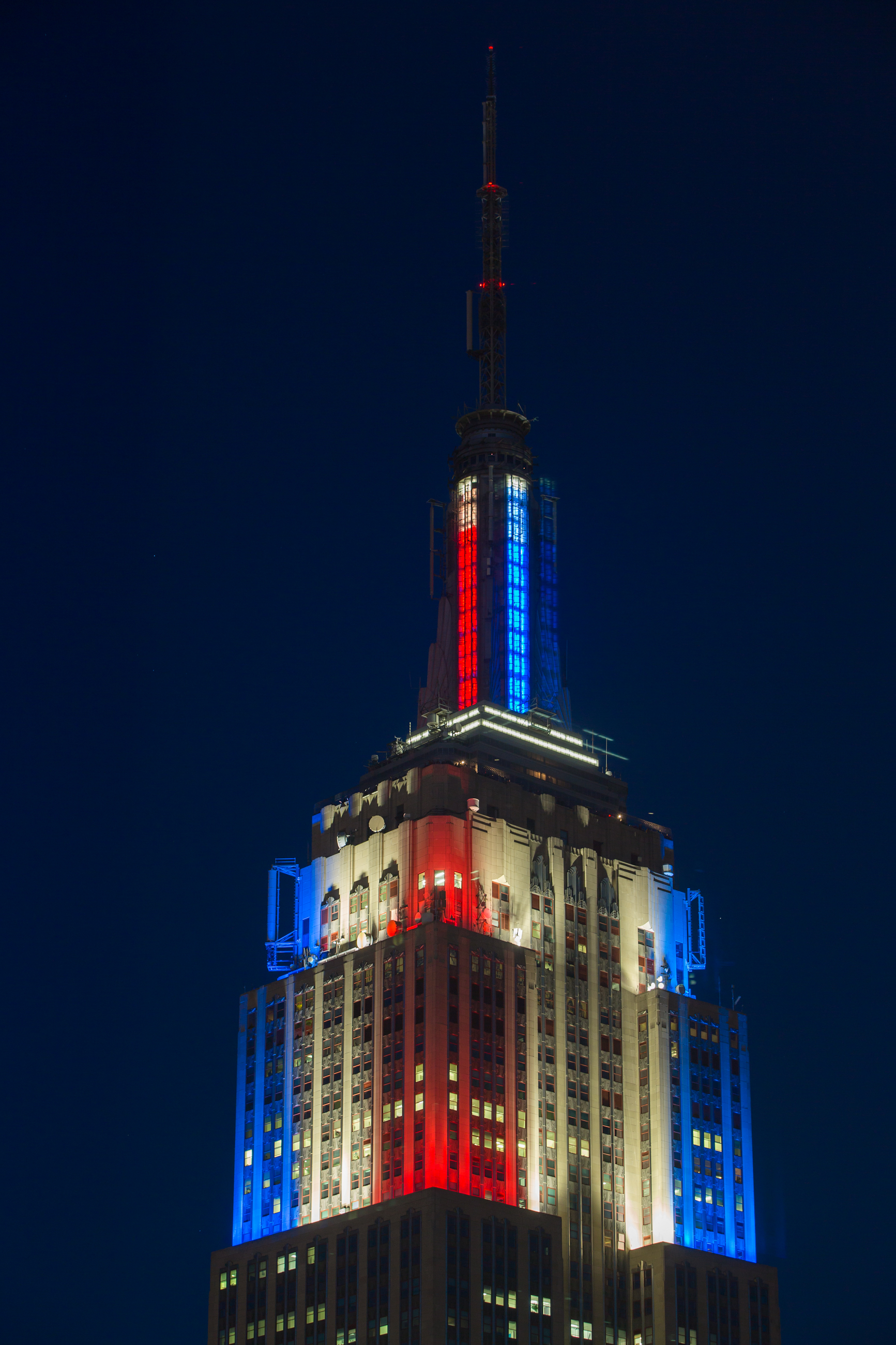 US Presidential Election results are live in LED lighting on the spire of the Empire State Building! Obama on the right in blue, Romney on the left in red.